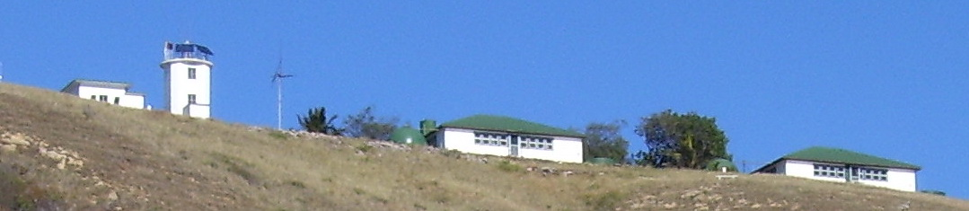 Cape Capricorn Lighthouse and houses